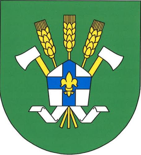 Municipal coat of arms of Dobev village, Písek District, Czech Republic.